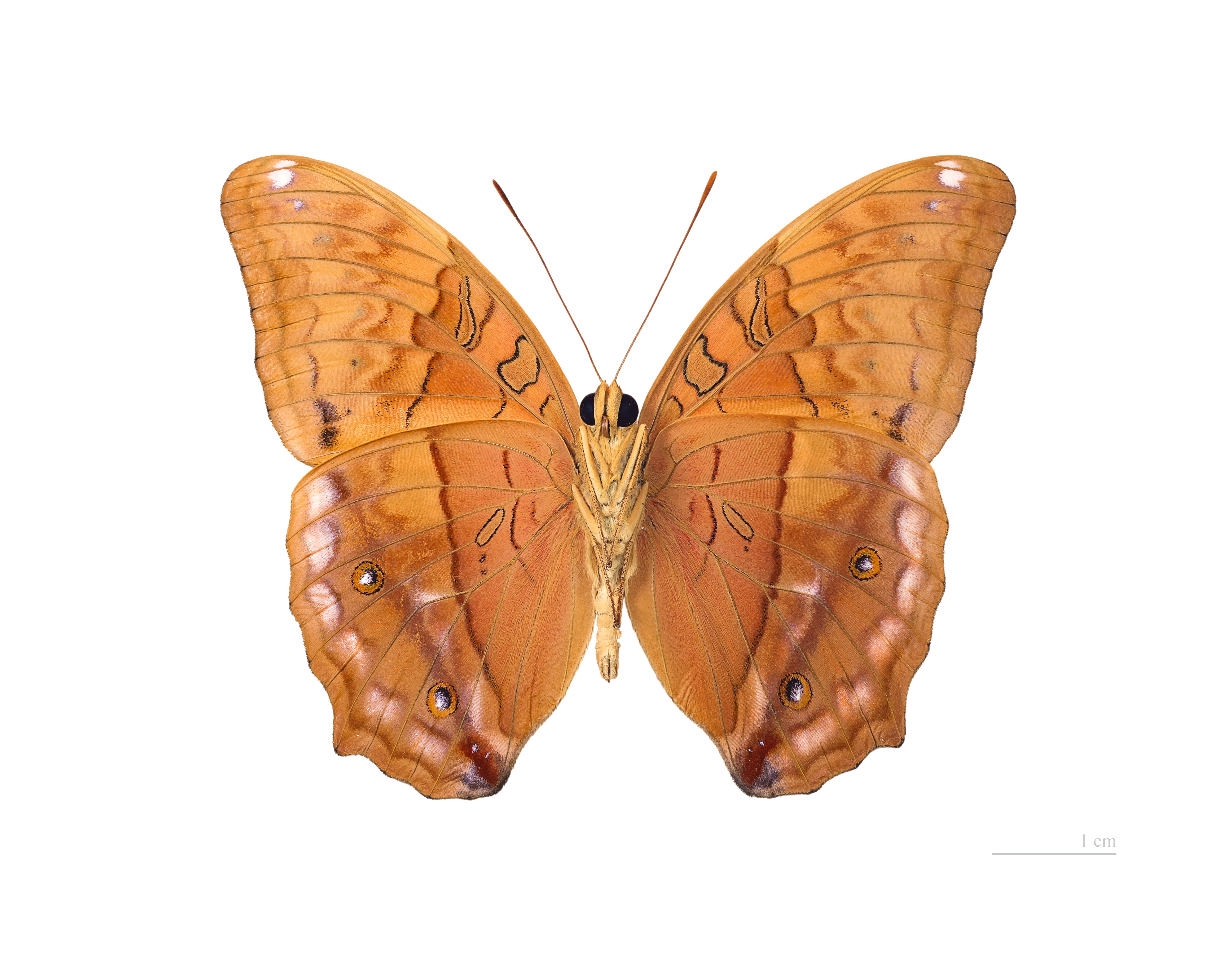 ♂ - △ Ventral side Locality: Cairns Queensland, Australia.